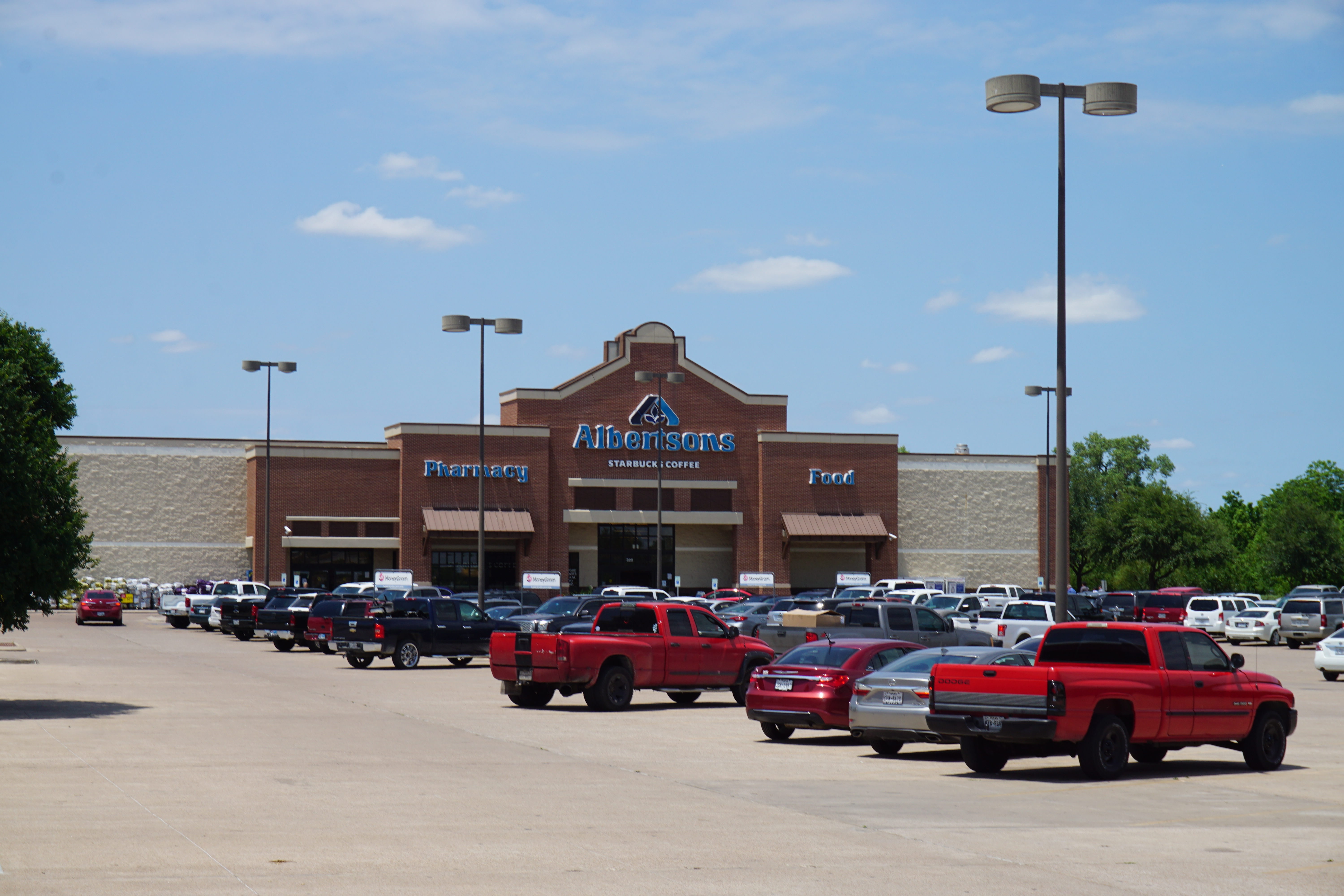 Albertsons in Weatherford, Texas (United States).